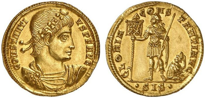 Constantius II. Solidus Siscia